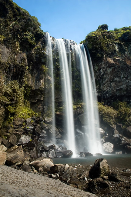 Daytime long-exposure of the Jeongbang waterfall